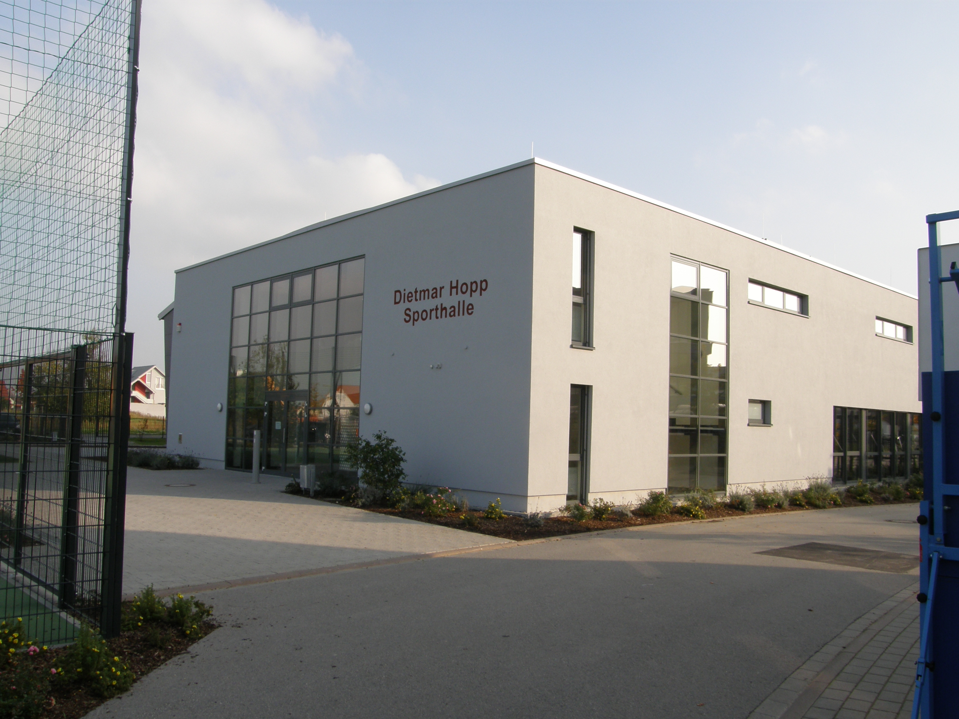 Dietmar Hopp Sporthalle in Sankt Leon/Baden/ Germany